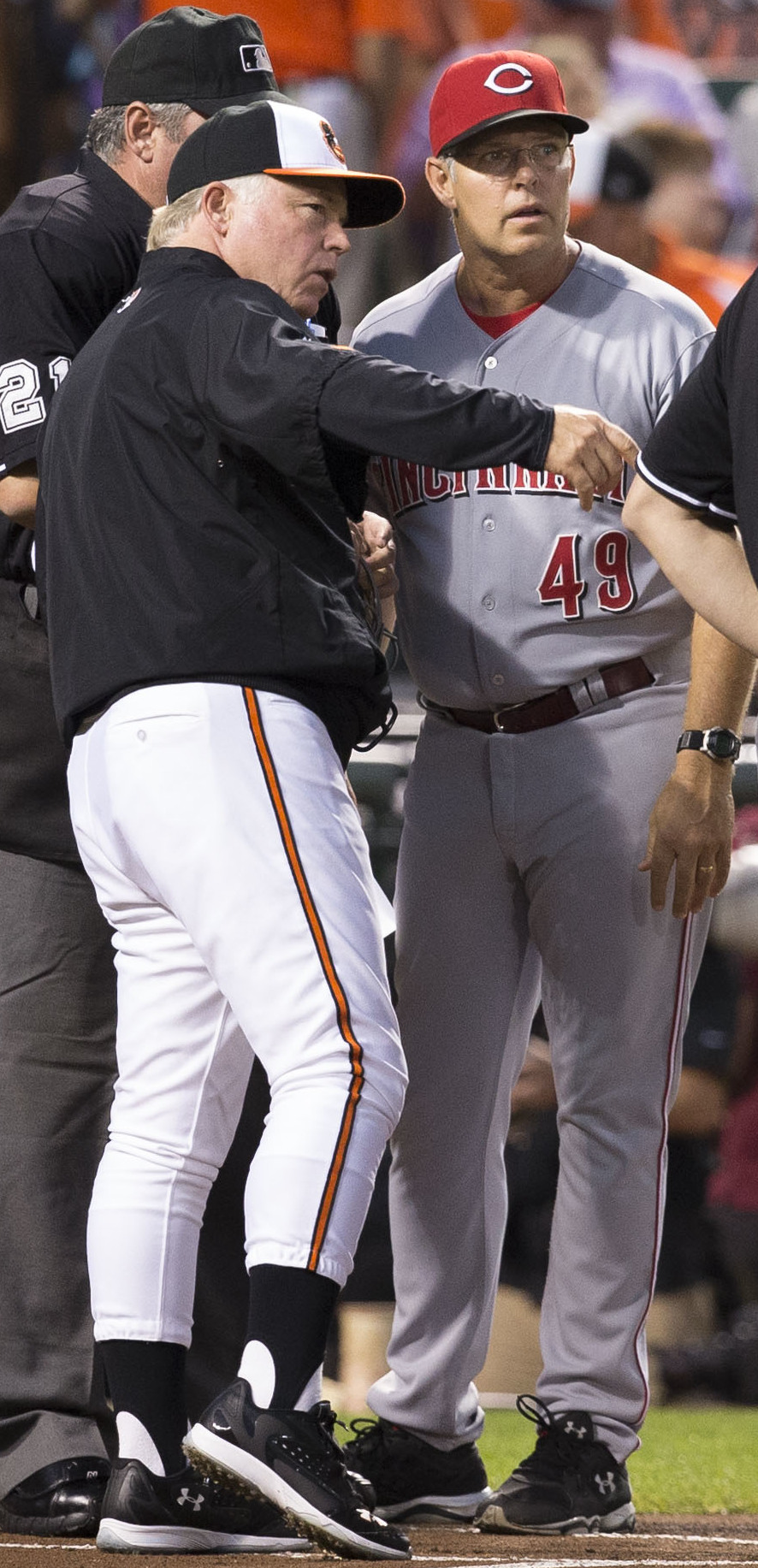 Buck Showalter, manager of the Baltimore Orioles, and Jay Bell, coach of the Cincinnati Reds, confer with umpires before a game at Camden Yards in Baltimore in 2014.